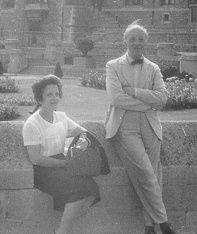 this photo was taken by my grandmother and given to me, hence I am the owner of the copyright of this photo